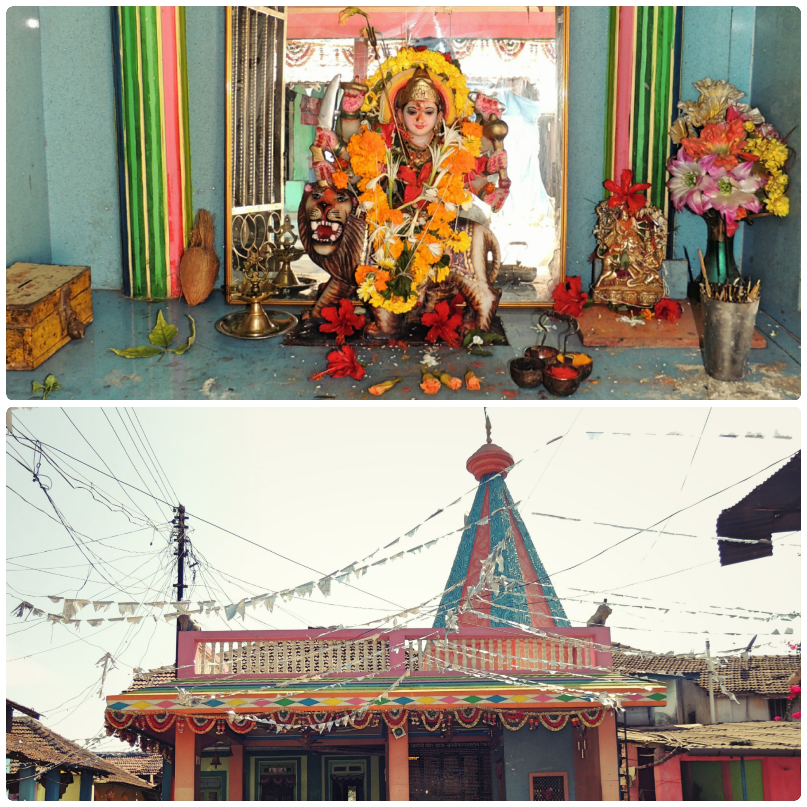 Gavdevi Mandir is also called as Village Goddess.It is a Jagrut Mandir.The very old temple, renovated completely.